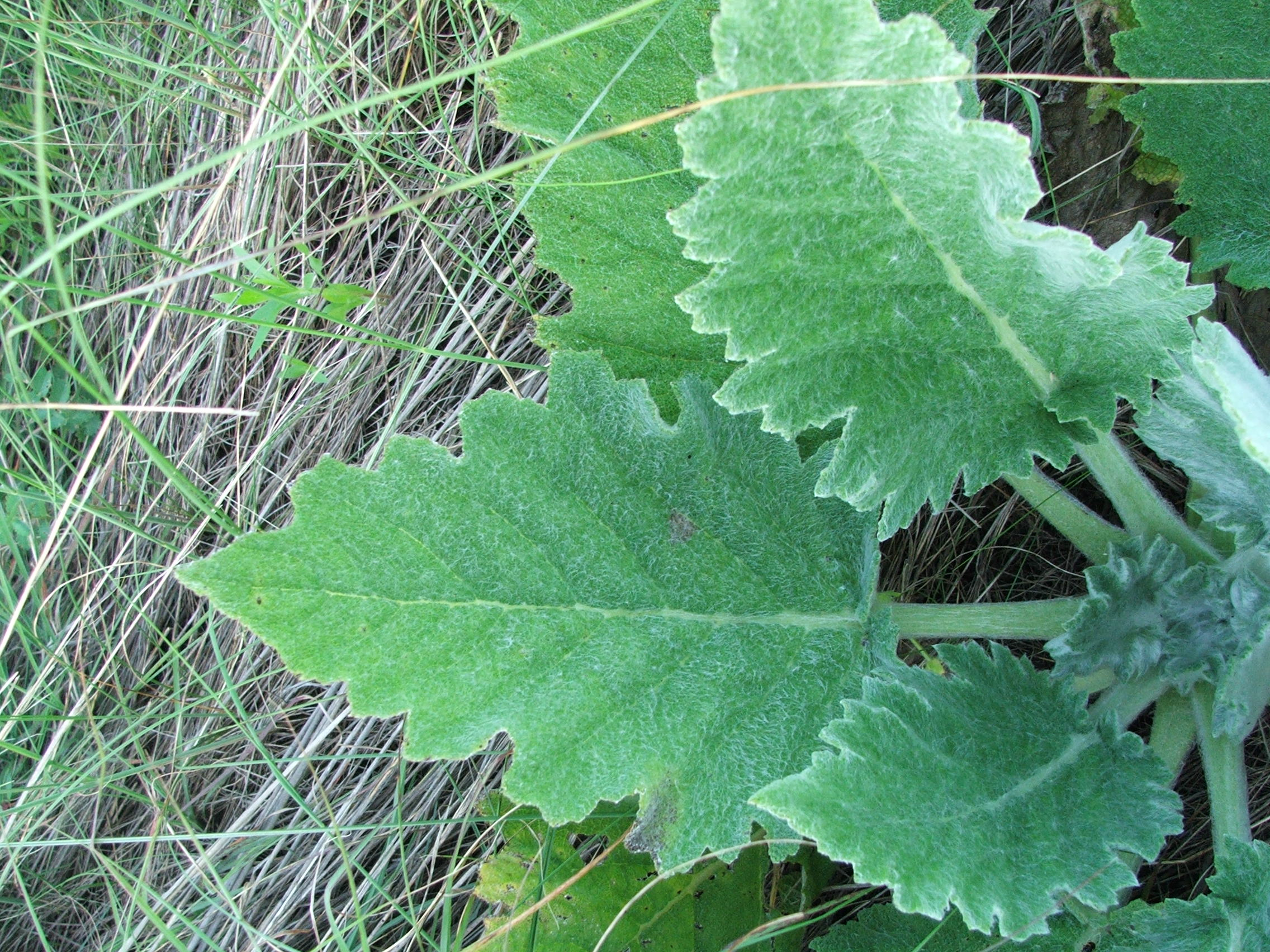 Leaves of Salvia aethiopis